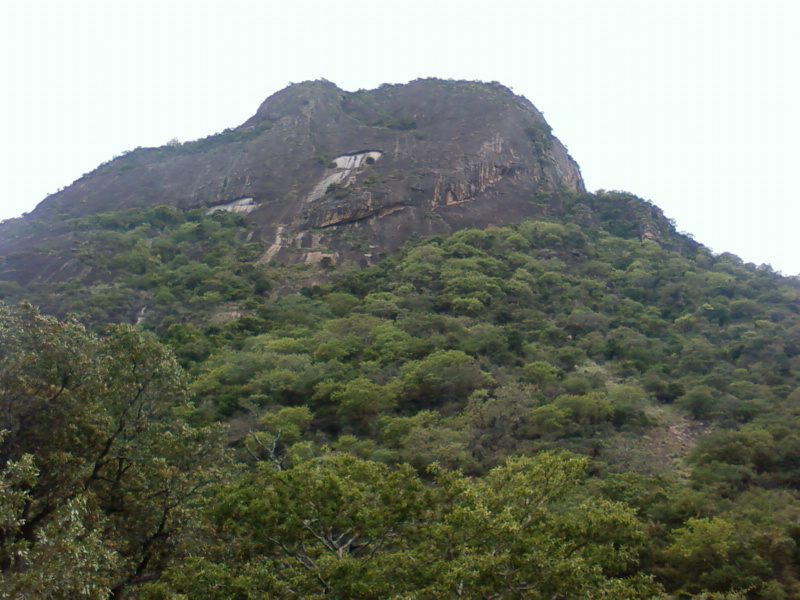 Thirumurthi hill in Pollachi taluk, Thiruppur District, TamilNadu.